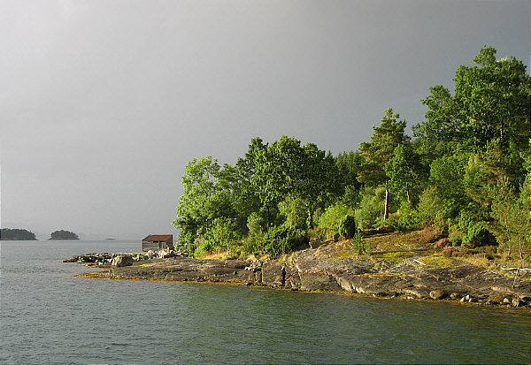 Halsnoey (Halsnøy) in Norway